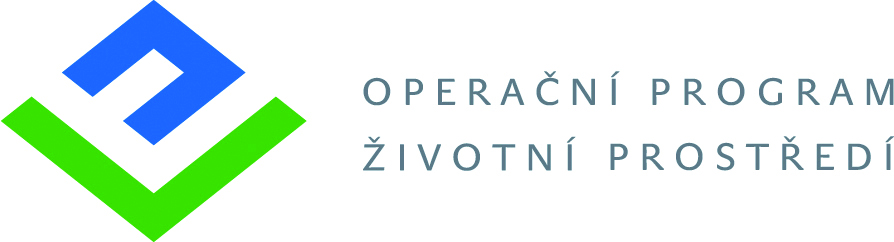 ope